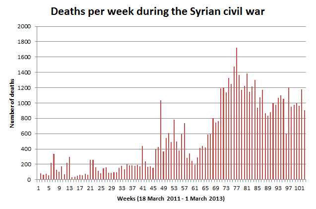 Weekly deaths as a result of the Syrian civil war, based on data from the Syrian National Council [1].